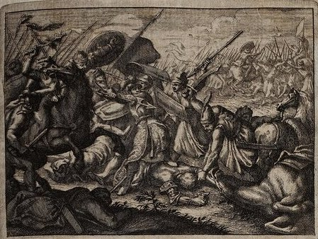 Death of Varnenchick, Rycaut, Paul; Sagredo, Giovanni Die Neu-eröffnete Ottomannische Pforte: Bestehend: Erstlichen, In einer ... Beschreibung Deß gantzen Türckischen Staats- und Gottesdiensts (Band 1) — Augsburg, 1694, p. 33